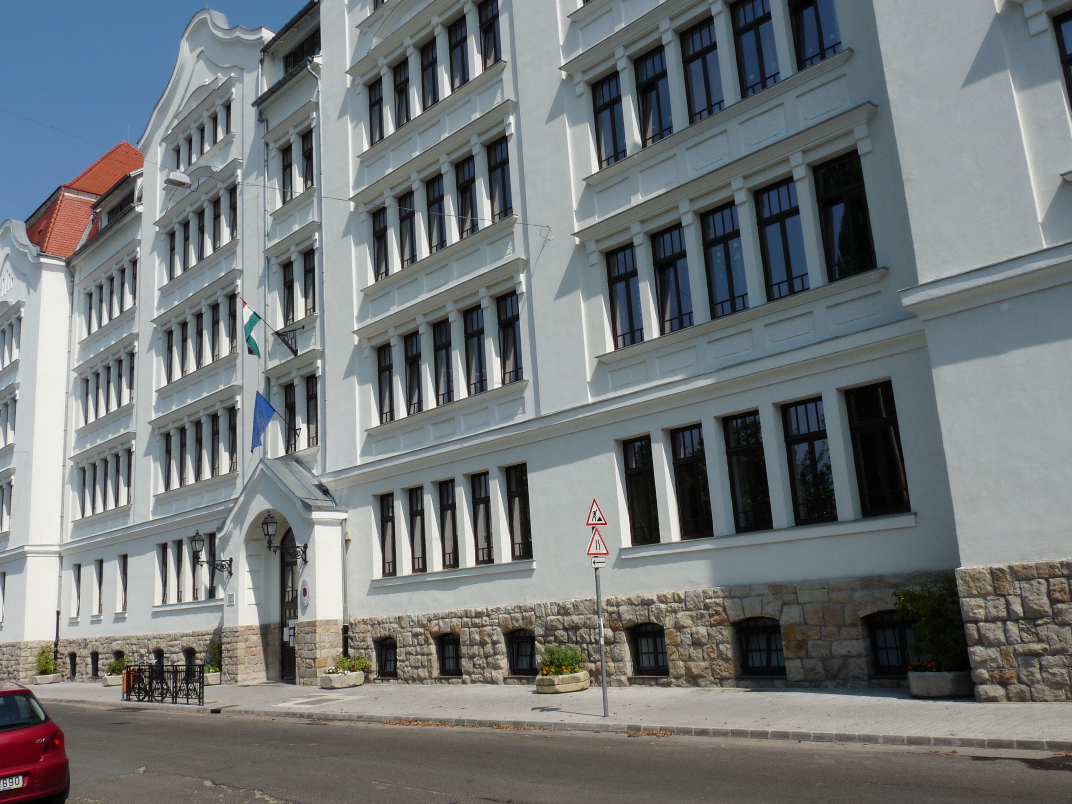 Pannónia primary school main facade